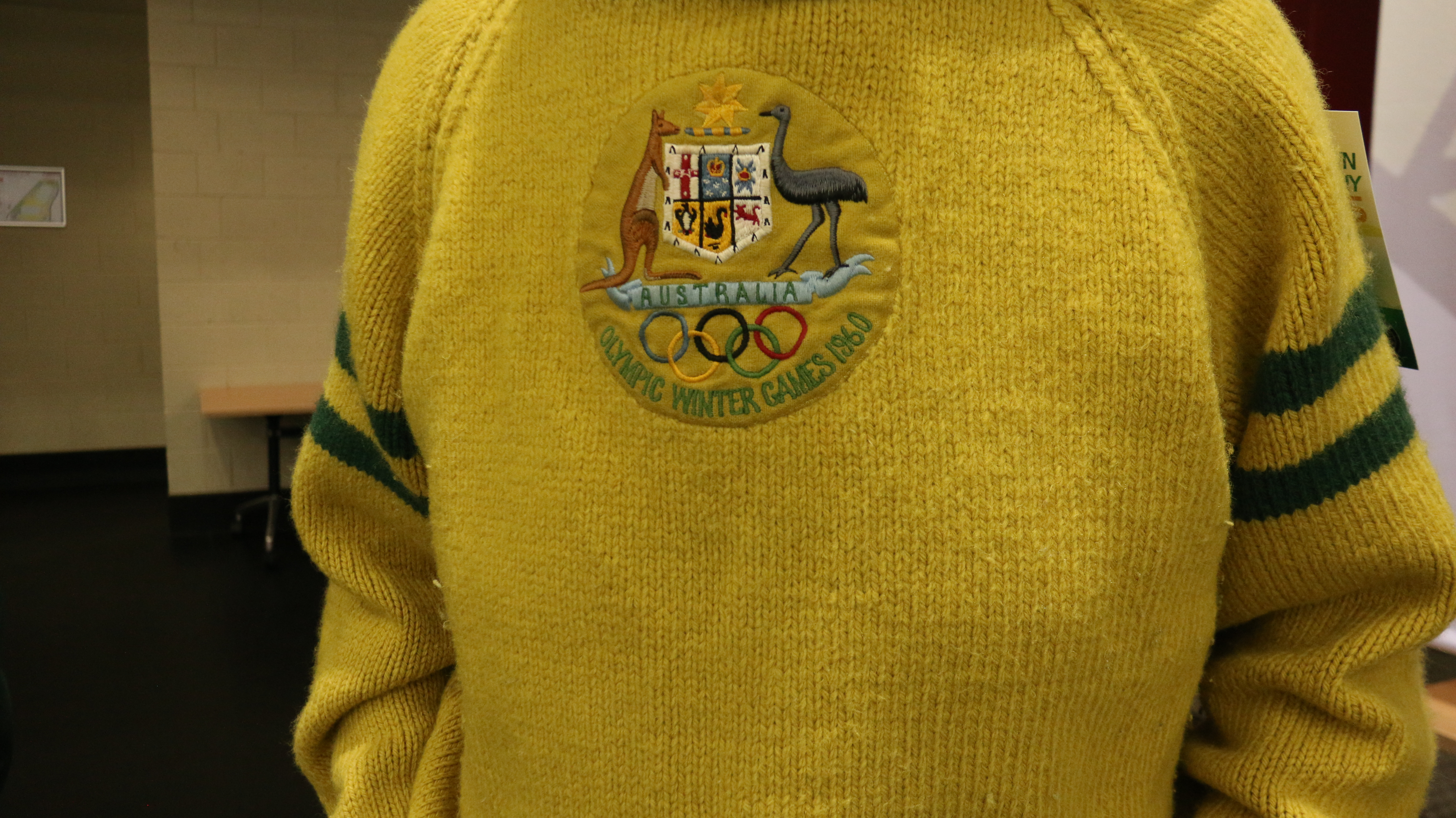 An original Australian Olympic ice hockey sweater from 1960, worn by the original owner, Australian Olympian Vic Ekberg during the 55th anniversary weekend.